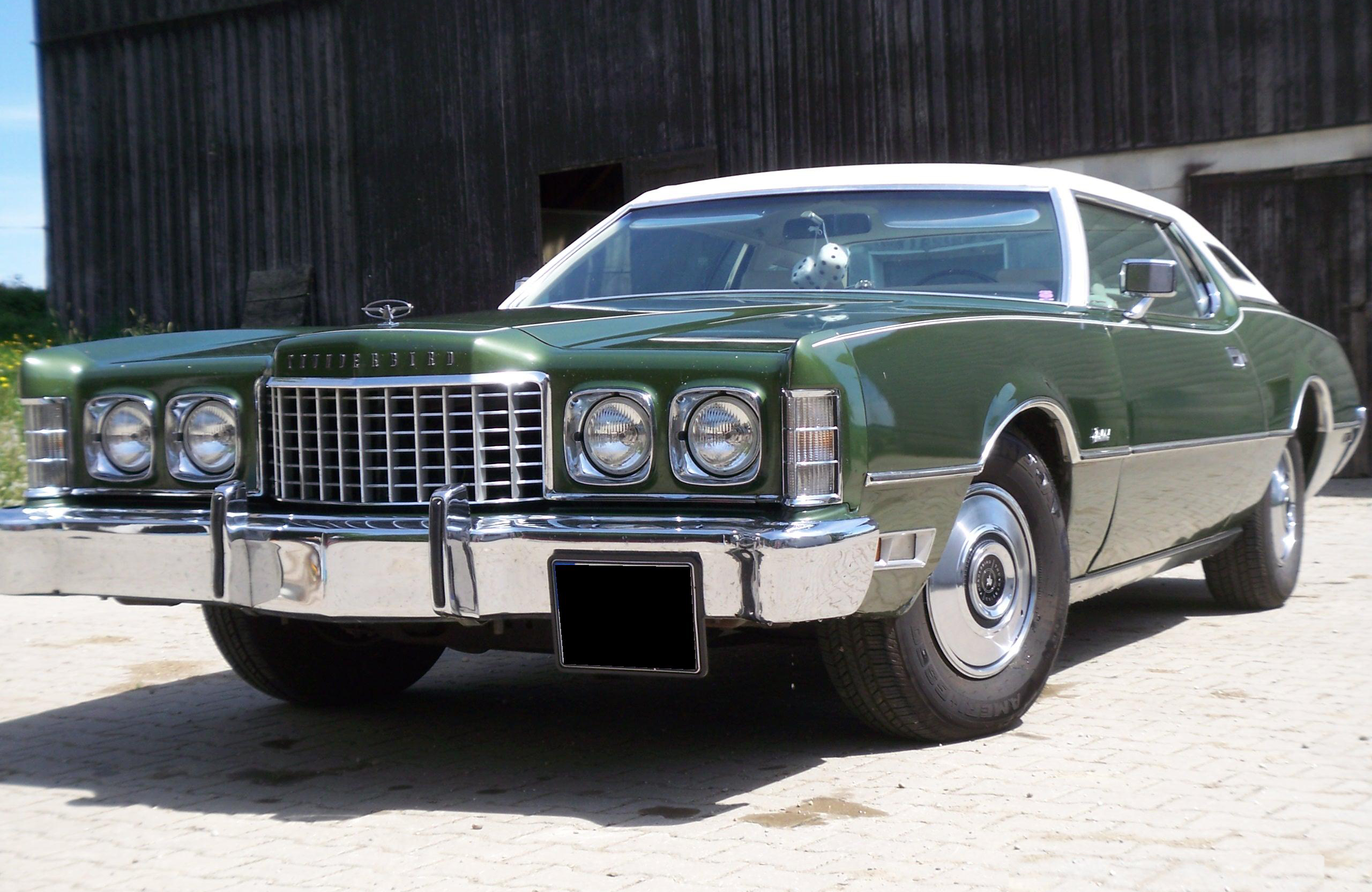 Ford Thunderbird Build 1973 Color: Green Fire